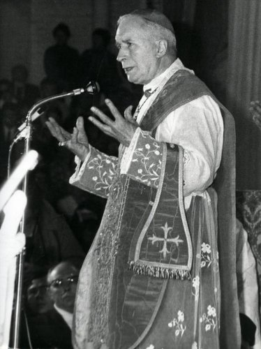 The suspended French Archbishop Mgr. Marcel Lefebvre (founder of Fraternite sacerdotale Saint-Pie X) celebrates against the orders of the pope in a Mass for 6,000 people in Lille, France, August 30, 1976.